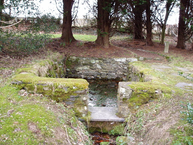 Ffynnon Sarah. A Holy Well, dedicated to Saeran, a 6th century bishop. Bathing in it was supposed to cure cancer and rheumatism.